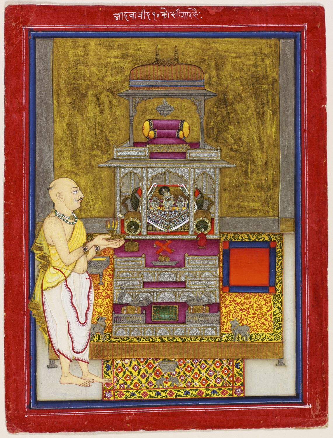 Maharao Kishor Singh of Kota Worshipping Brijrajji. ca. 1830-40 Philadelphia MOA